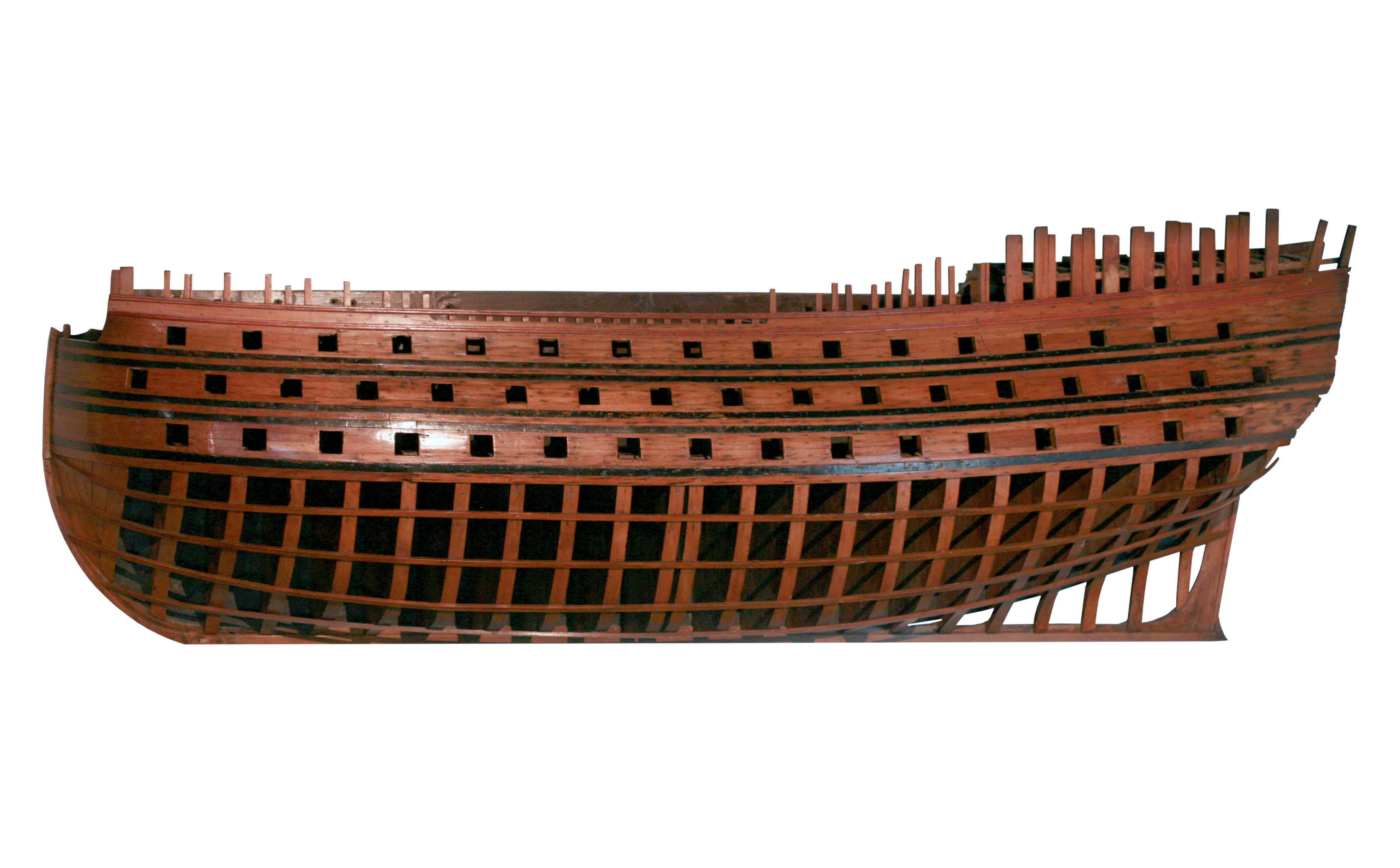 Half-hull of a 120-gun ship of the line. Arsenal sculpture workshop. Wood. On display at Brest naval museum, accession number MnM 19 CN 8